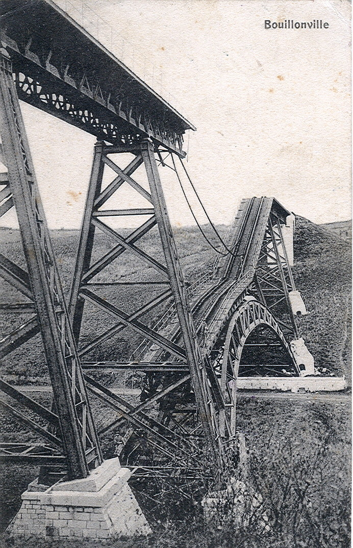 Postcard, dated 11.3.1915. Title: "Bouillonville"